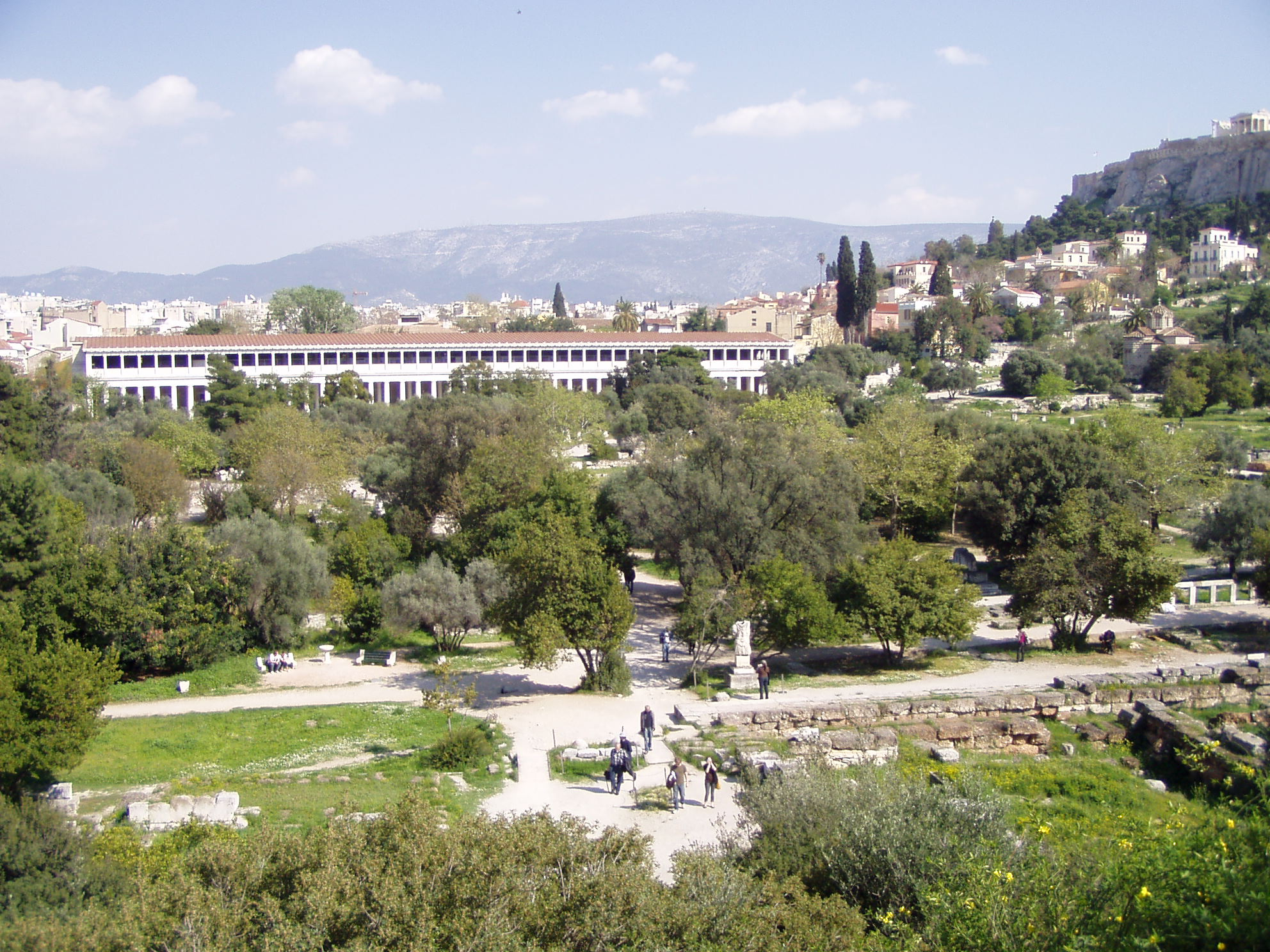 This is the Ancient Agora of Athens.